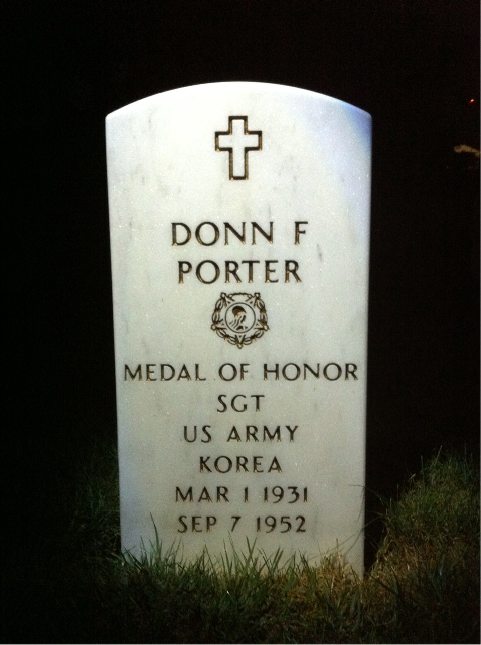 Grave of Donn F. Porter at Arlington National Cemetery